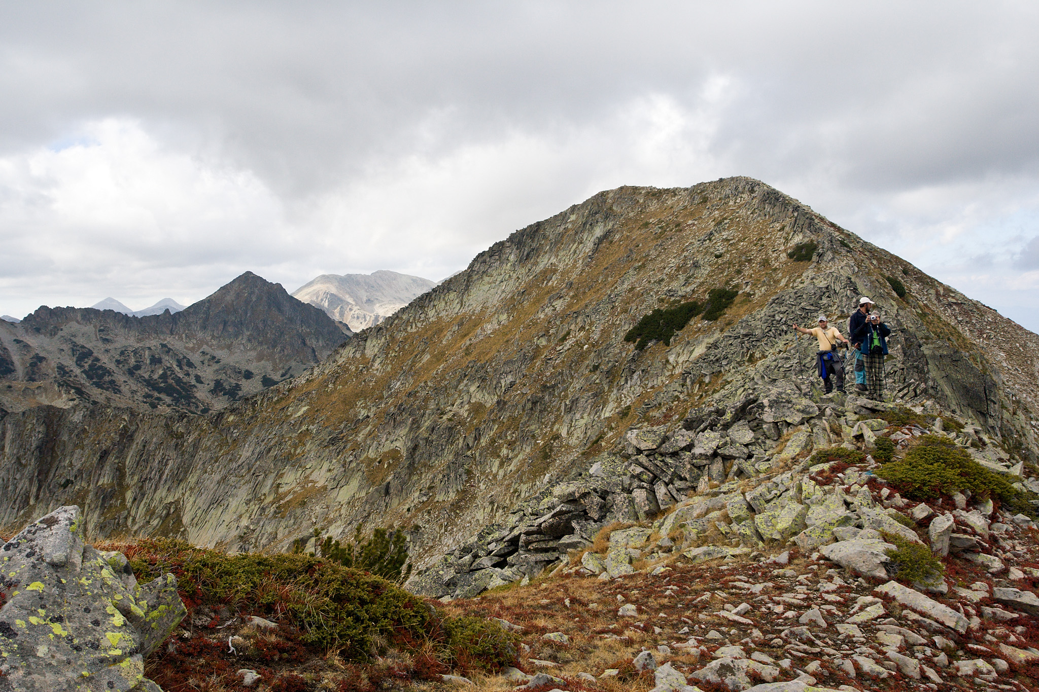 Djano summit in Pirin mountain, Bulgaria